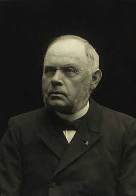 Danish grocer and politician Hans Vandahl Tolderlund (1836-1928)